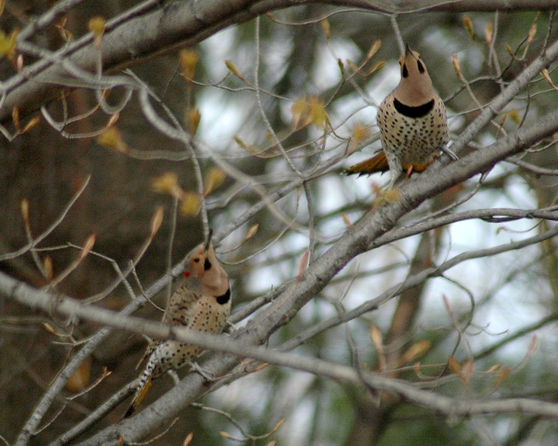 Two Northern Flicker males in a territorial display during spring. Taken in Traverse City, Michigan.